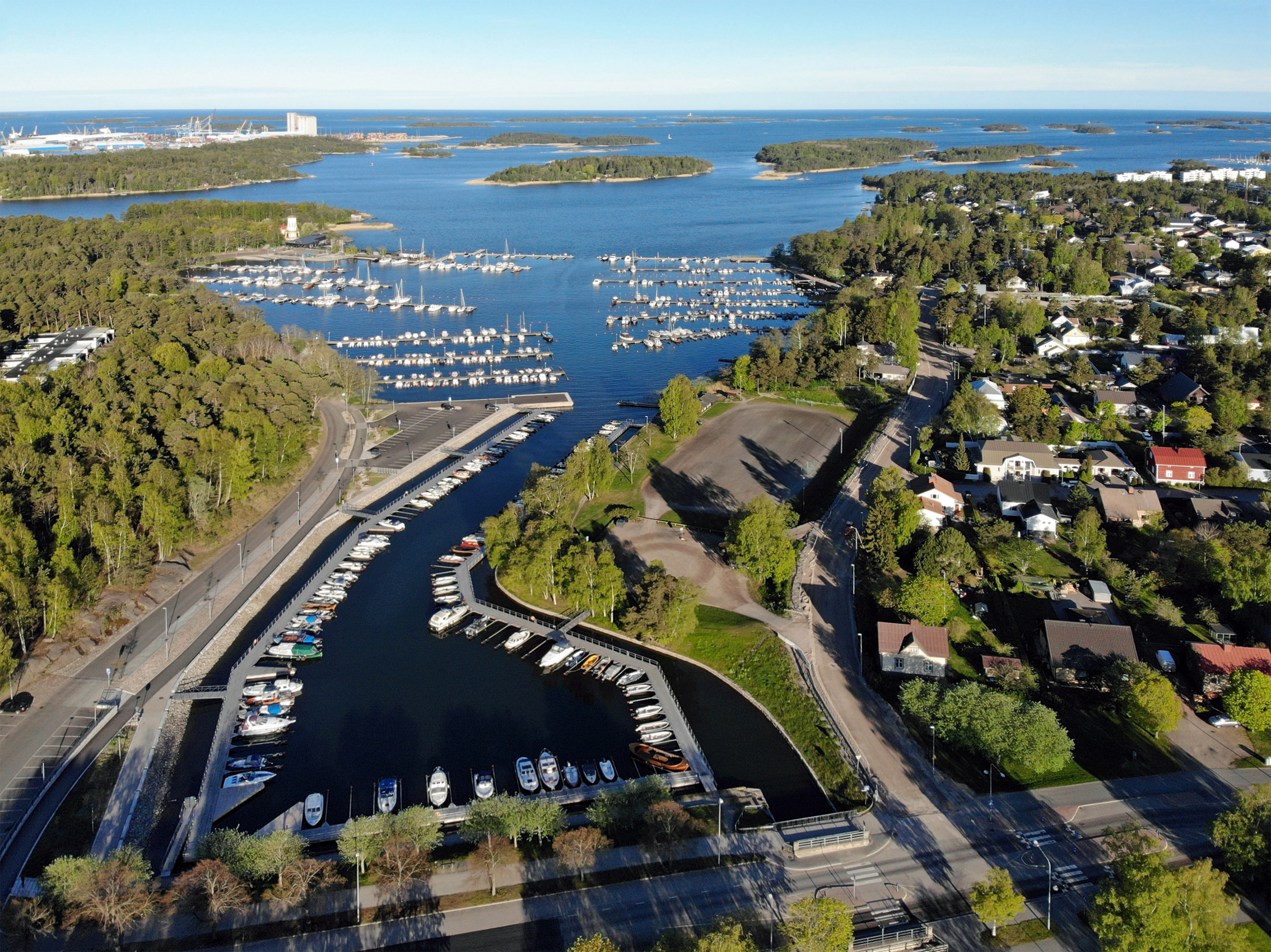 Rauma marina.